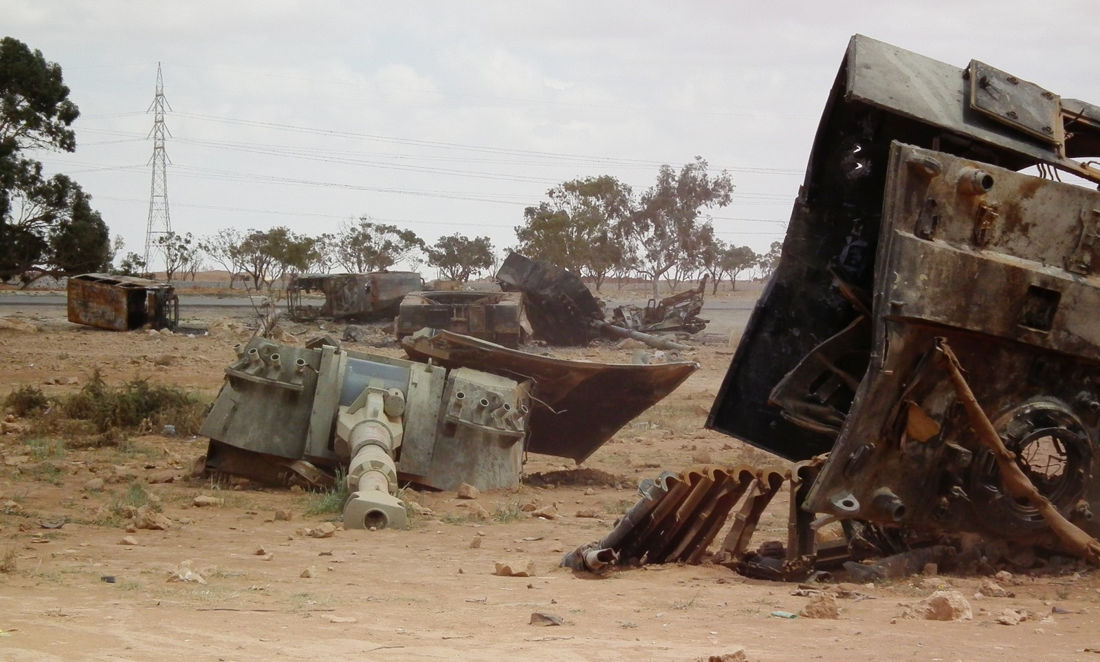 Part of a group of six, italian built, Palmaria self-propelled howitzers of the Gaddafi forces, destroyed by French Rafale airplanes at the west-southern outskirts of Benghazi, Libya, in Opération Harmattan on March 19, 2011. In the background other destroyed vehicles along the street that leads from Benghazi to Ajdabija.